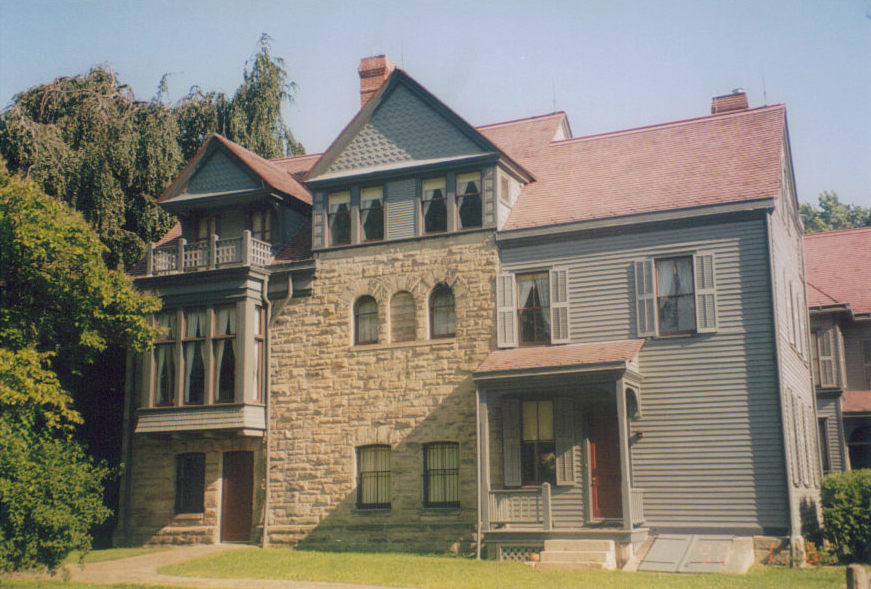 I took photo of James A. Garfield House in Mentor, Ohio, in Aug. 2005.19:11, 4 July 2008 (UTC)